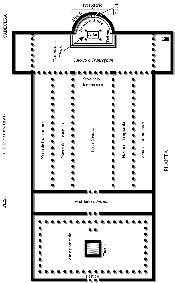 Plan of old St Peter's, showing atrium (courtyard), narthex (vestibule), central nave with double aisles, a bema for the clergy extending into a transept, and an exedra or semi-circular apse. ATTENTION! The number of columns is incorrect!